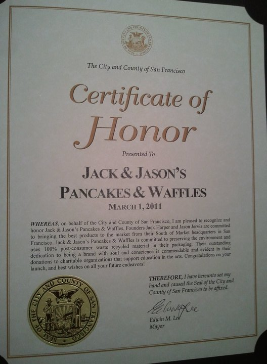 Jack & Jason's Certificate of Honor